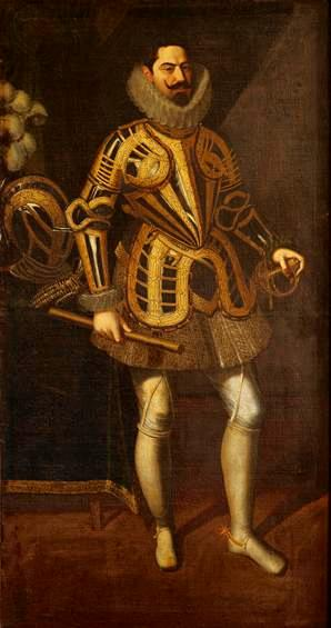 16º Vice-rei da Índia - 1591